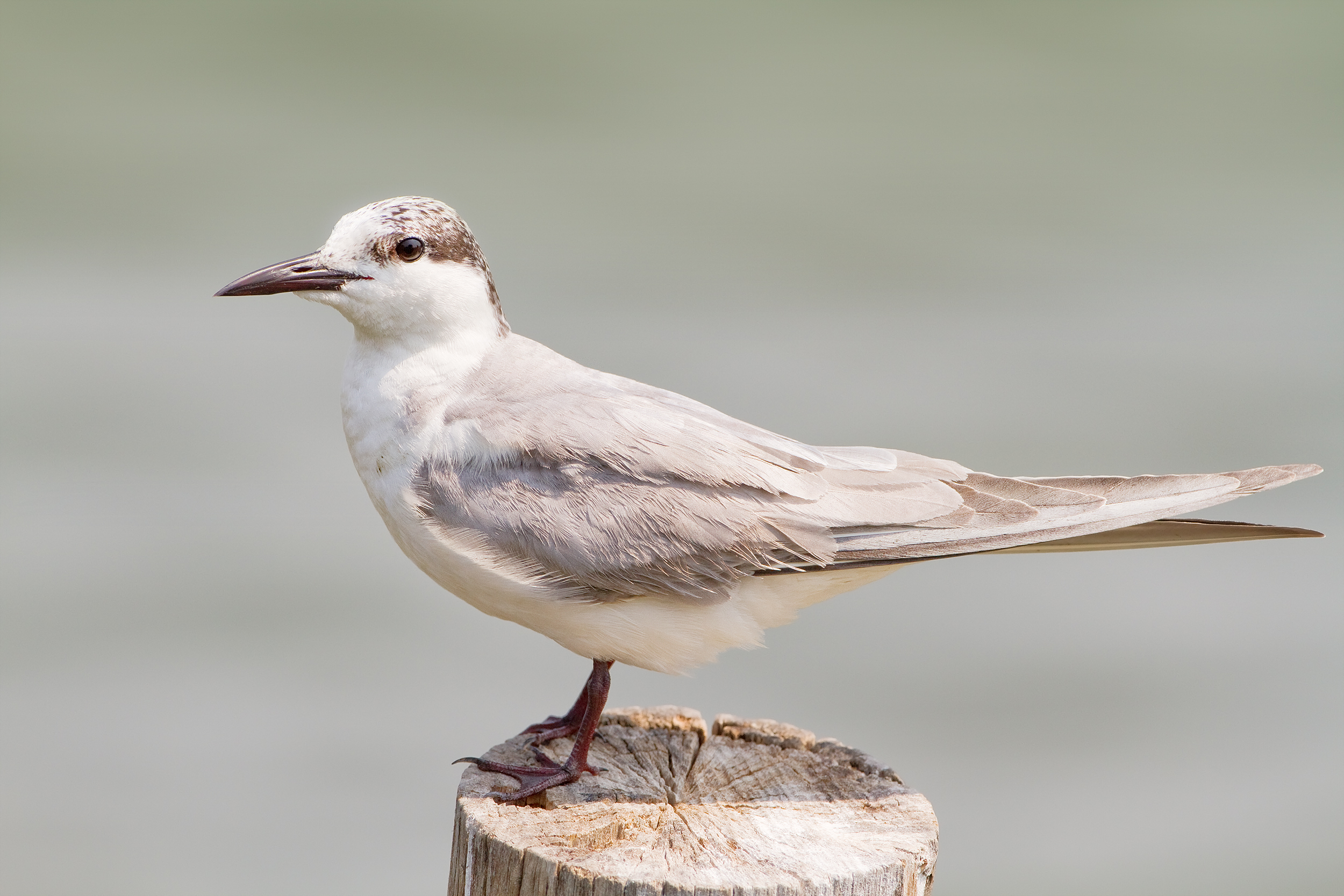 Whiskered Tern Chlidonias hybrida in winter plumage, Laem Phak Bia, Ban Laem, Phetchaburi, Thailand